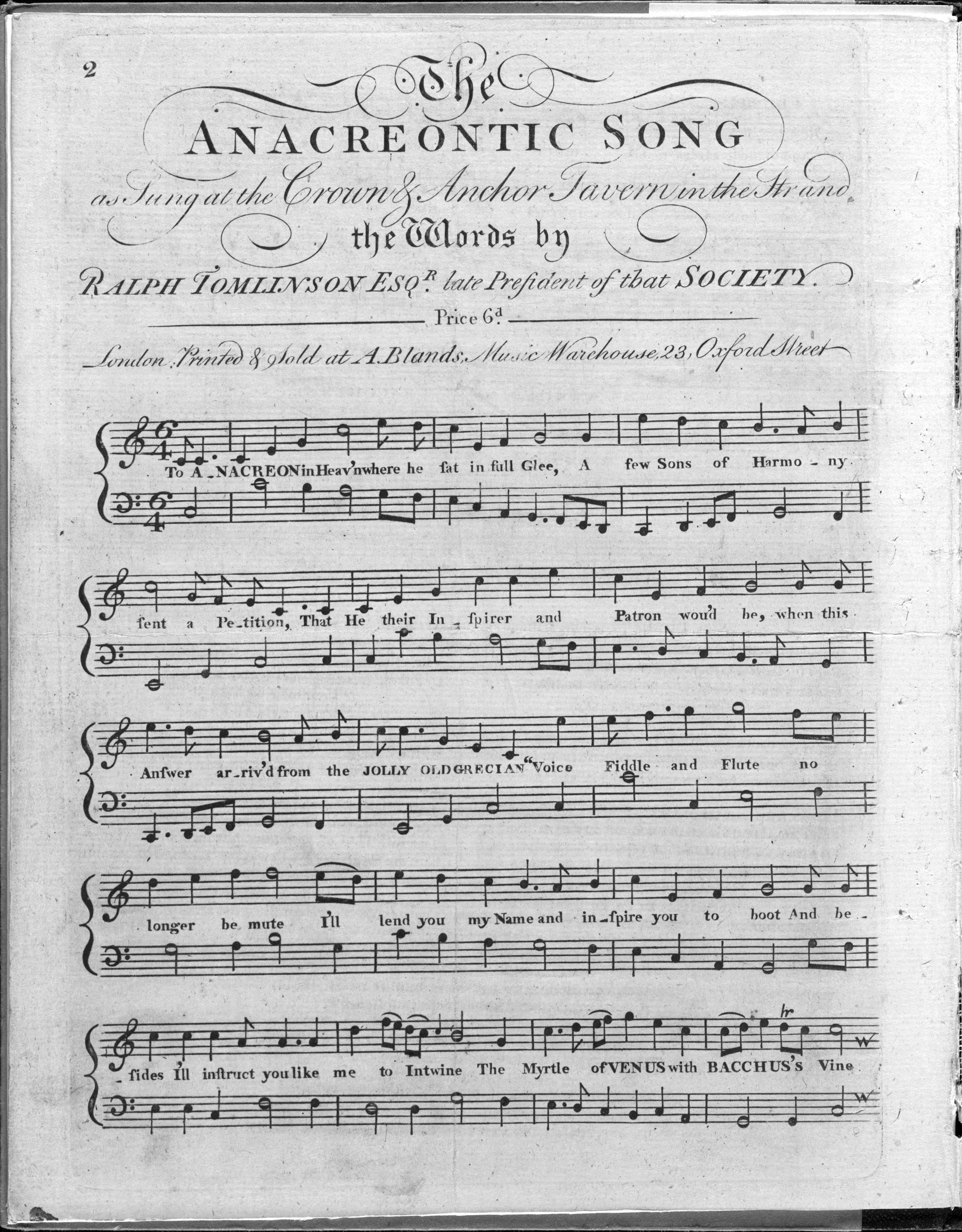 At the top of the page : "The Anacreontic Song" as Sung at the Crown & Anchor Tavern in the Strand. The Words by Ralph Tomlinson Esqr. late President of that Society. Price 6d. London. Printed & Sold at A. Blands, Music Warehouse, 23, Oxford Street. This song is by and for a London musicians' society, in glory of Bacchus (god of wine) and Venus (goddess of love), after the Greek poet Anacreon. The members of this society could continue to drink wine, if they were able to sing this song. The tavern where they sang was probably at Arundel Street, in the Strand. The music was reused with other lyrics in two patriotic songs, with no relation to drunkenness or sex: the former anthem of Luxembourg, and the present anthem of the United States of America.